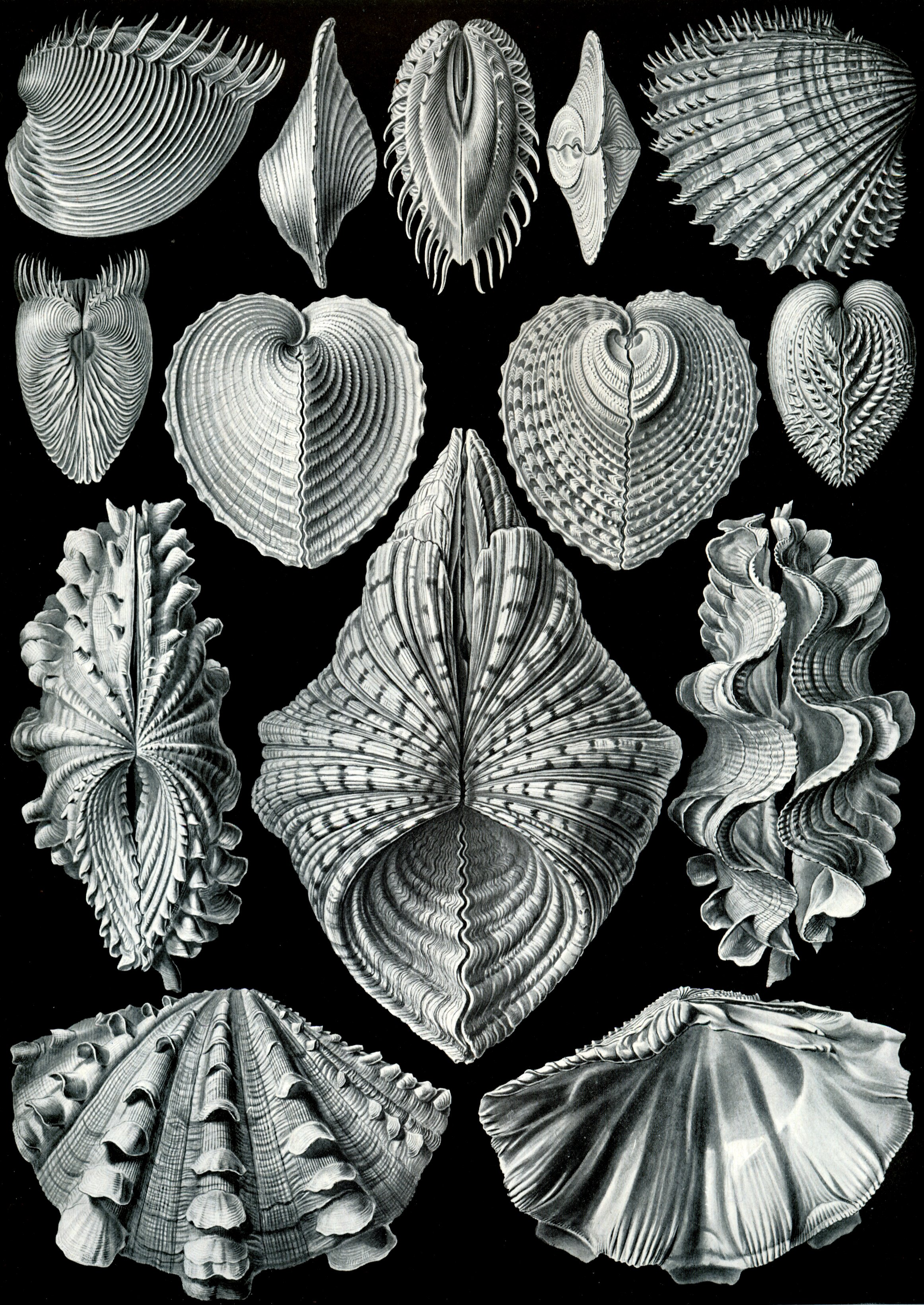 See here for index to numbers. Cytherea Dione (Lamarck) = Pitar dione = Hysteroconcha dione (Linnaeus 1758)[1], opening view Cytherea Dione (Lamarck) = Pitar dione = Hysteroconcha dione (Linnaeus 1758)[2], valve view Cytherea Dione (Lamarck) = Pitar dione = Hysteroconcha dione (Linnaeus 1758)[3], hinge view Cardium aculeatum (Linné) = Acanthocardia aculeata = (Linnaeus, 1767)[4], valve from outside Cardium aculeatum (Linné) = Acanthocardia aculeata (Linnaeus, 1767)[5], side view Hemicardium cardissa (Linné) = Corculum cardissa (Linnaeus, 1758), valve from outside Hemicardium cardissa (Linné) = Corculum cardissa (Linnaeus, 1758), opening view Hemicardium cardissa (Linné) = Corculum cardissa (Linnaeus, 1758), frontside view Hemicardium cardissa (Linné) = Corculum cardissa (Linnaeus, 1758), backside view Tridacna squamosa (Lamarck) = Tridacna squamosa Lamarck, 1819[6], hinge view Tridacna squamosa (Lamarck) = Tridacna squamosa Lamarck, 1819[7], opening view Tridacna squamosa (Lamarck) = Tridacna squamosa Lamarck, 1819[8], valve from outside Tridacna squamosa (Lamarck) = Tridacna squamosa Lamarck, 1819[9], valve from inside Hippopus maculatus (Lamarck) = Hippopus hippopus (Linnaeus, 1758)[10], hinge view